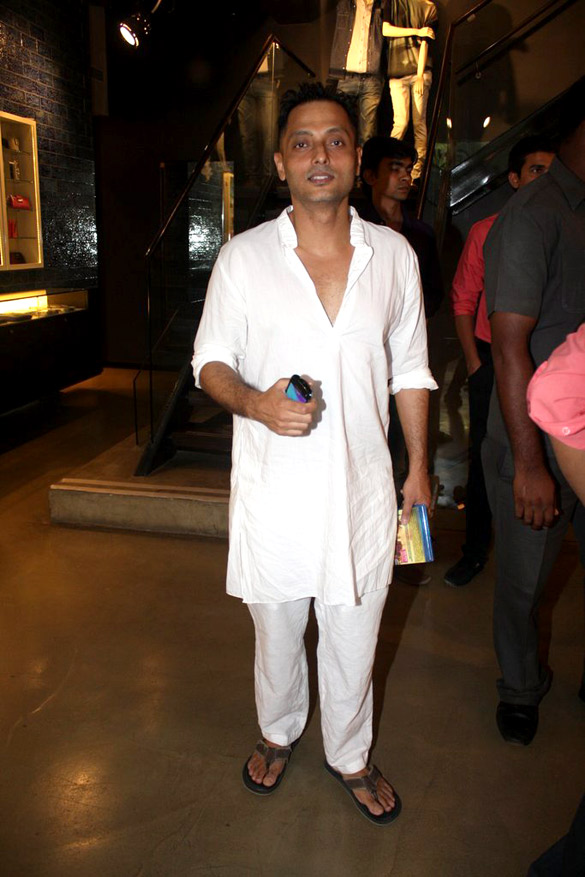 dvd launch kahaani